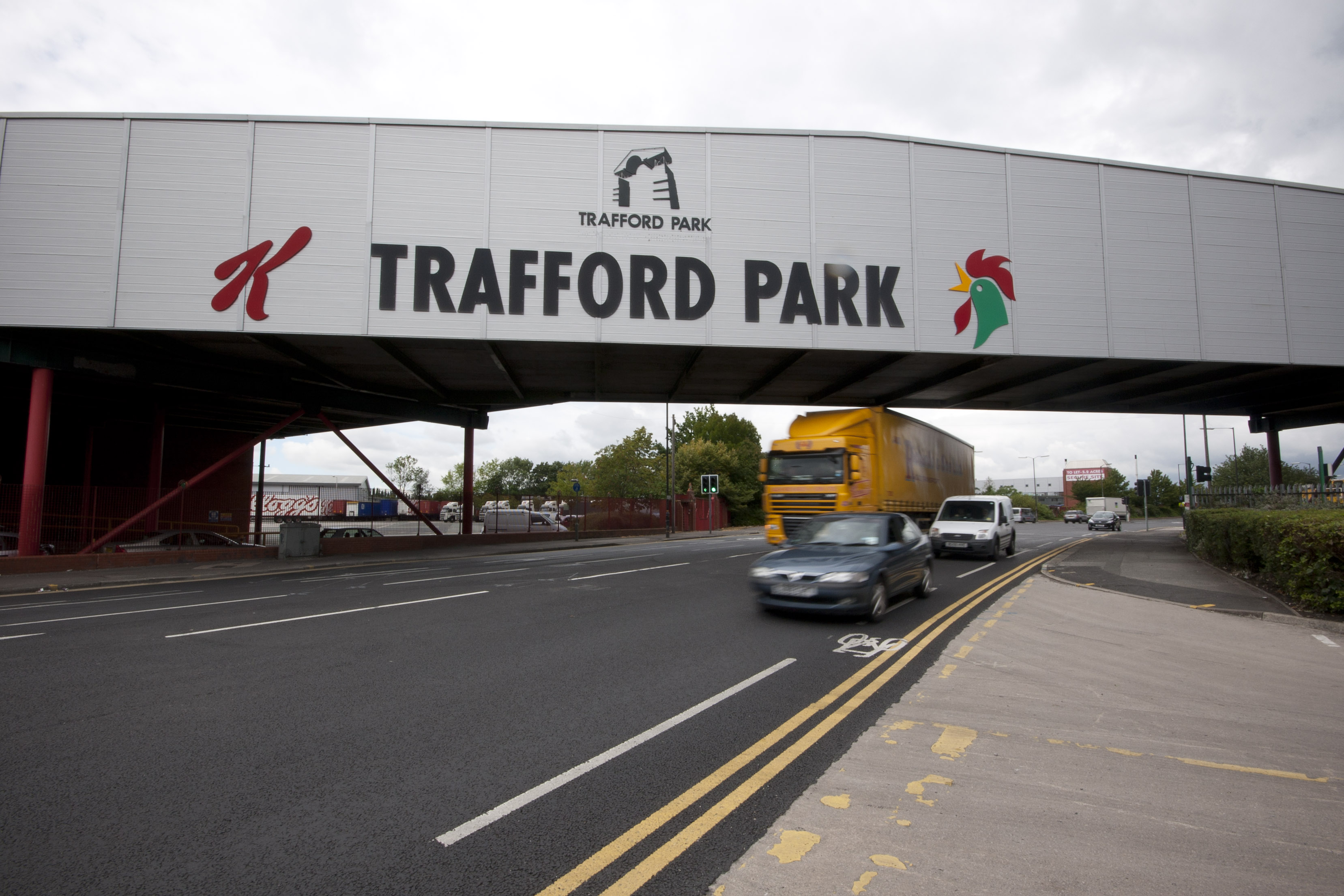 The Kelloggs bridge at the entrance to Trafford Park, Manchester.